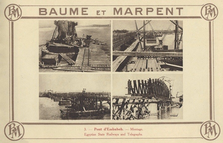 Baume et Marpent, bridge catalog